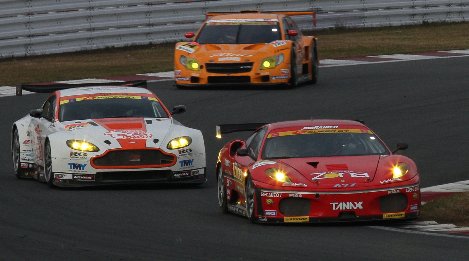 2010 JAF Grand Prix - GT300 Race 1: Katsuyuki Hiranaka (JIMGAINER, Ferrari F430), Daiki Yoshimoto (A speed, Aston Martin V8 Vantage GT2), and Yuji Kunimoto, Toyota Collora Axio GT).